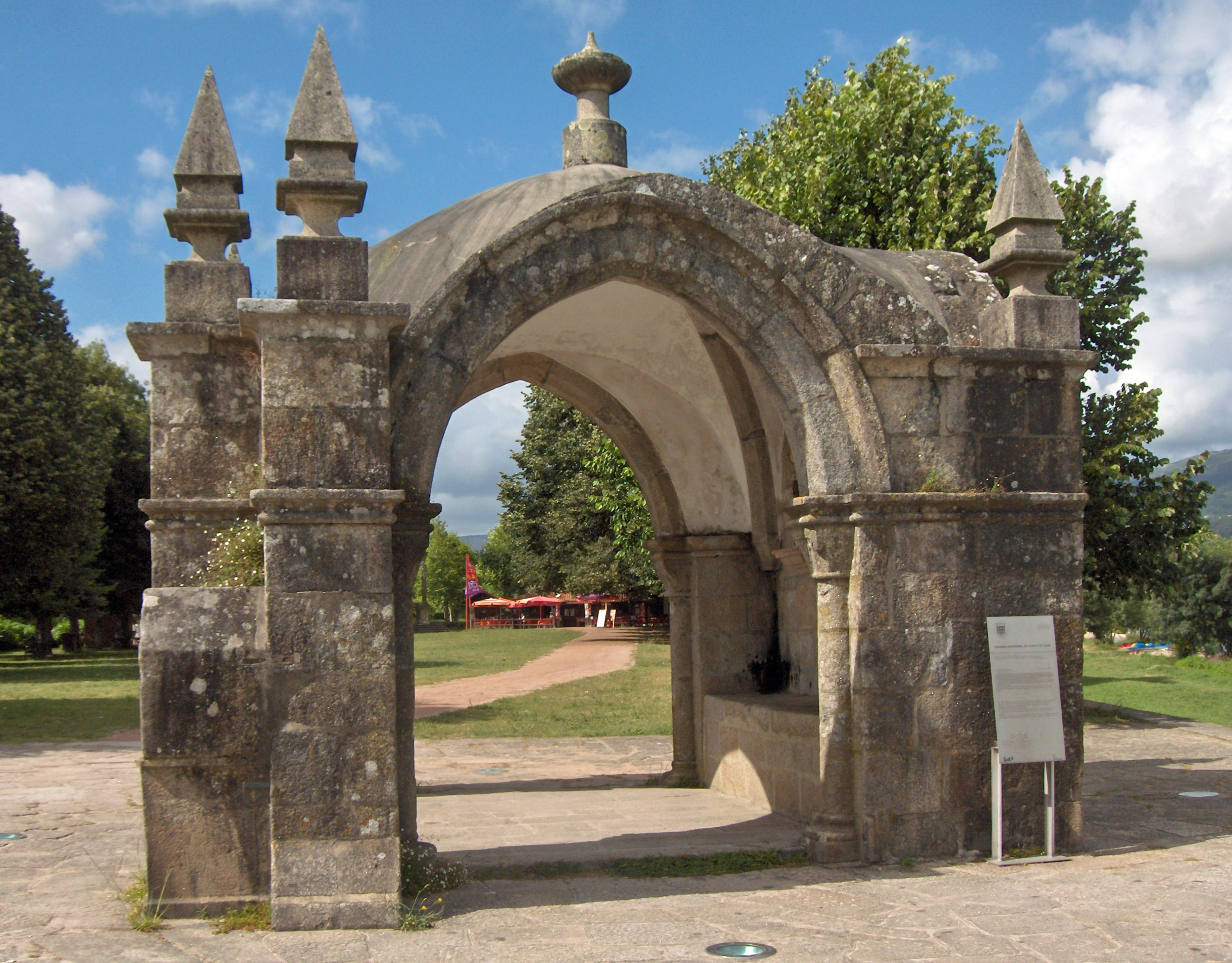 Chapel of Anjo da Guarda, Ponte de Lima, Portugal.